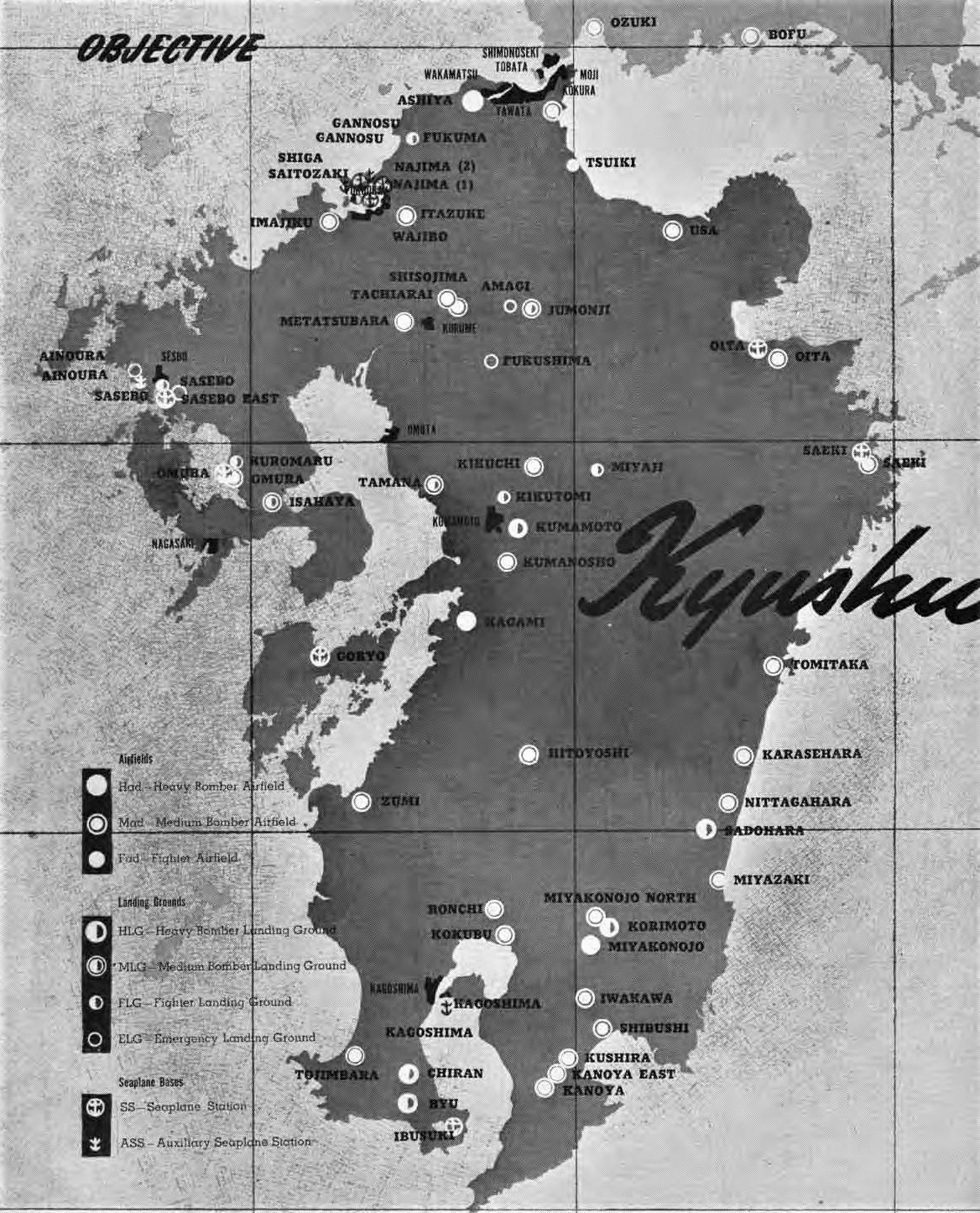 airfields in kyushu 15 august 1945 in Naval Aviation News